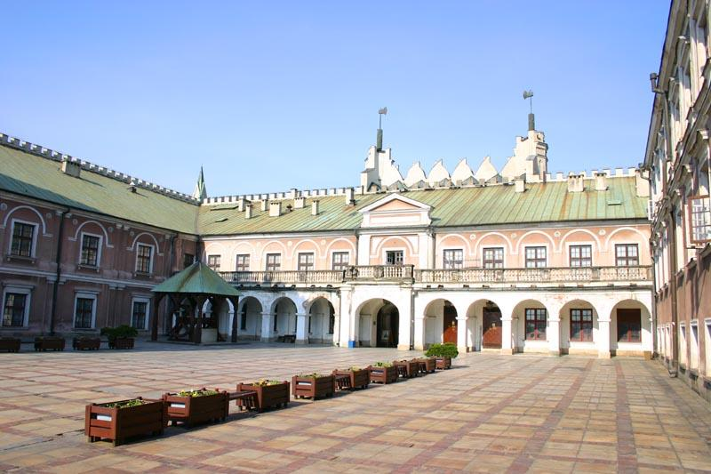 Courtyard of the Lublin Castle